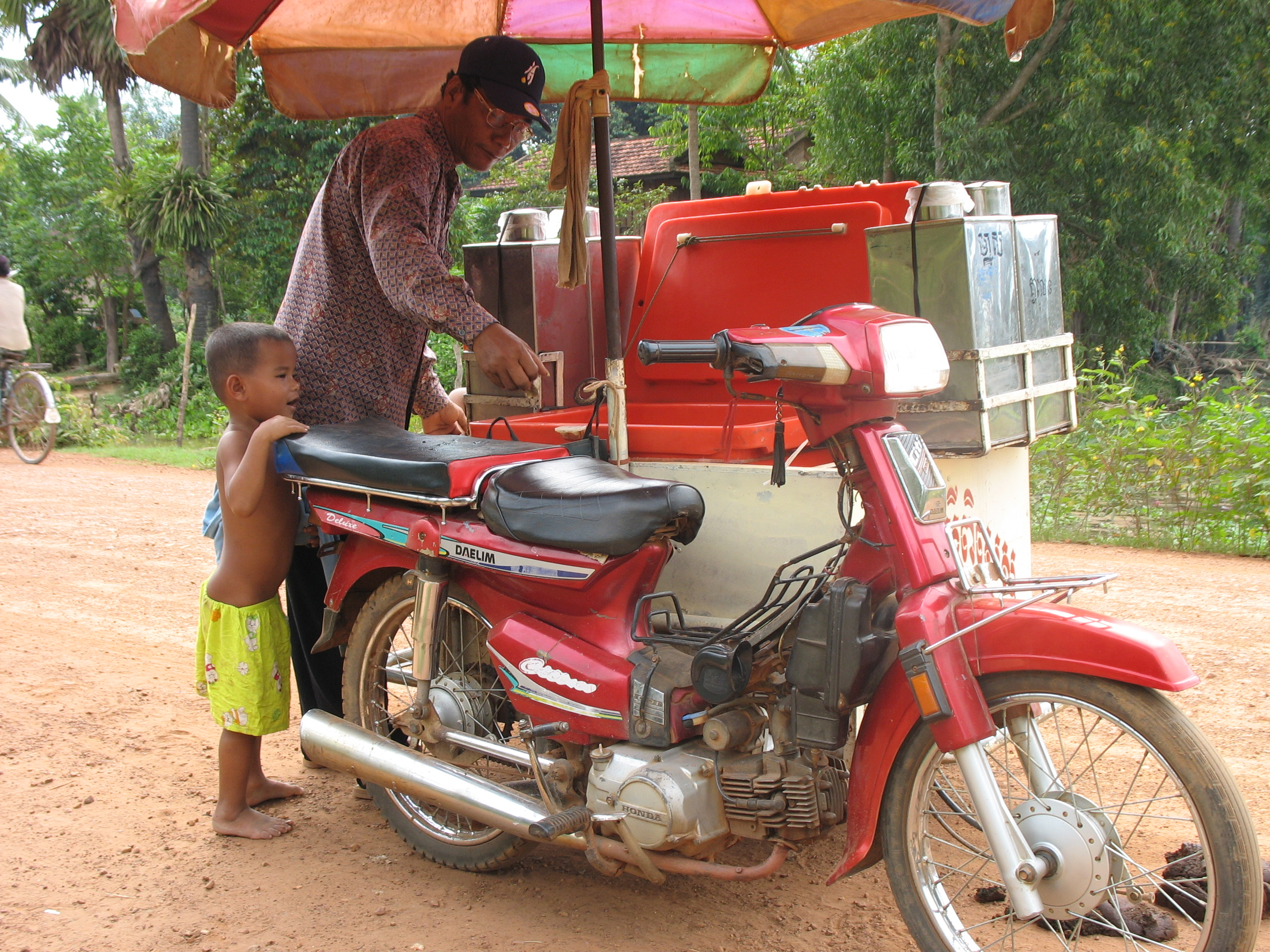 Motor cycle with attachment for ice cream vending